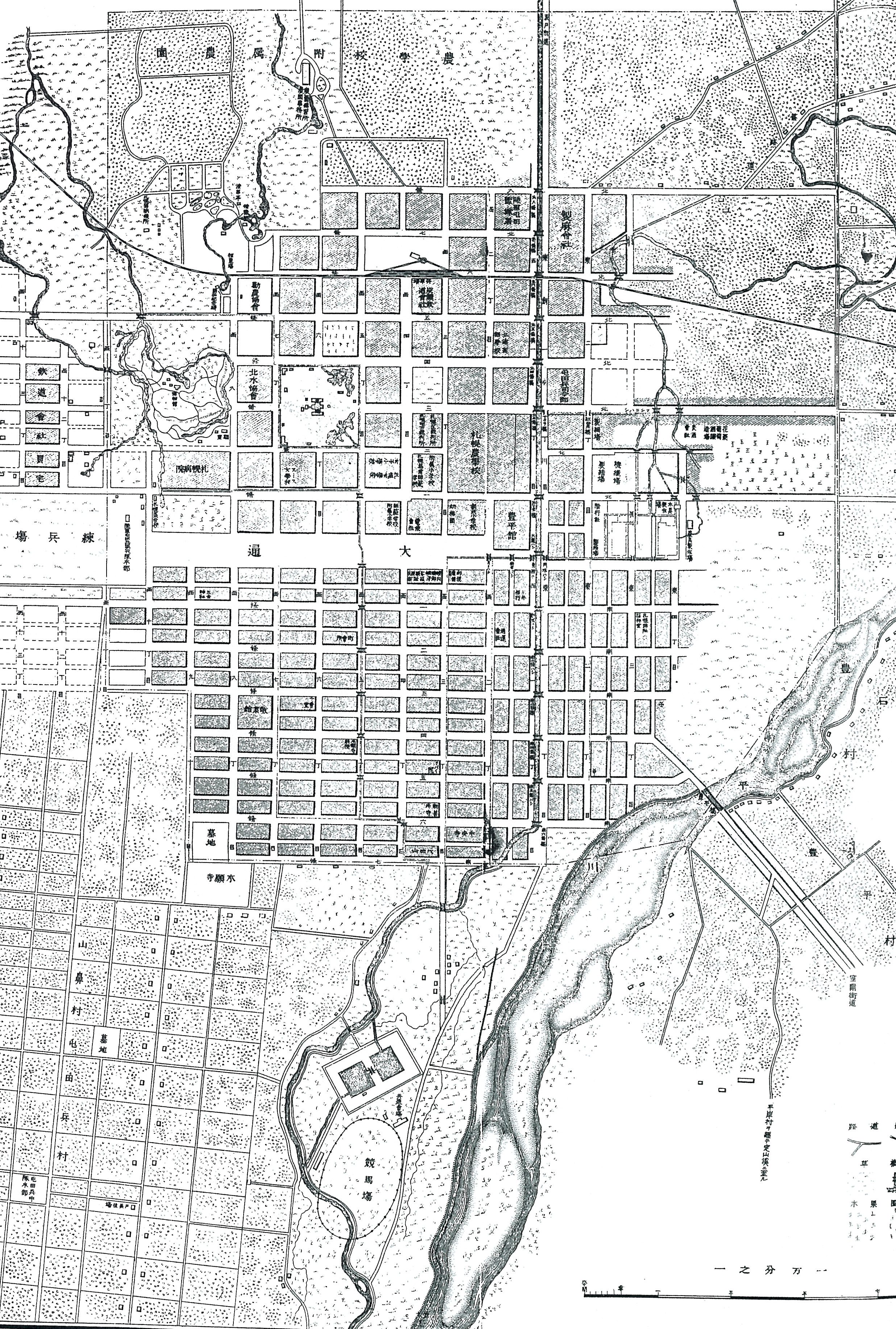 Map of Sapporo in 1891